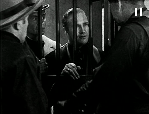 Gene Autry in Oh, Susanna! (1936)